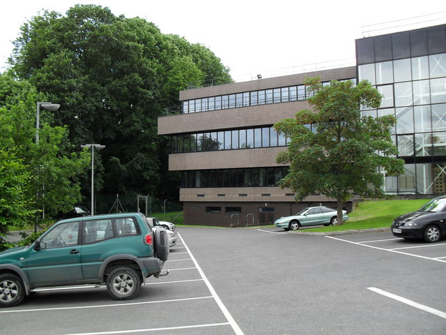 Castle Buildings, Stormont Estate Castle Buildings is a large government building on the Stormont Estate - housing the Office of First Minister and Deputy First Minister (OFMDFM) and the Department of Health, Social Services and Public Safety (DHSSPSNI).